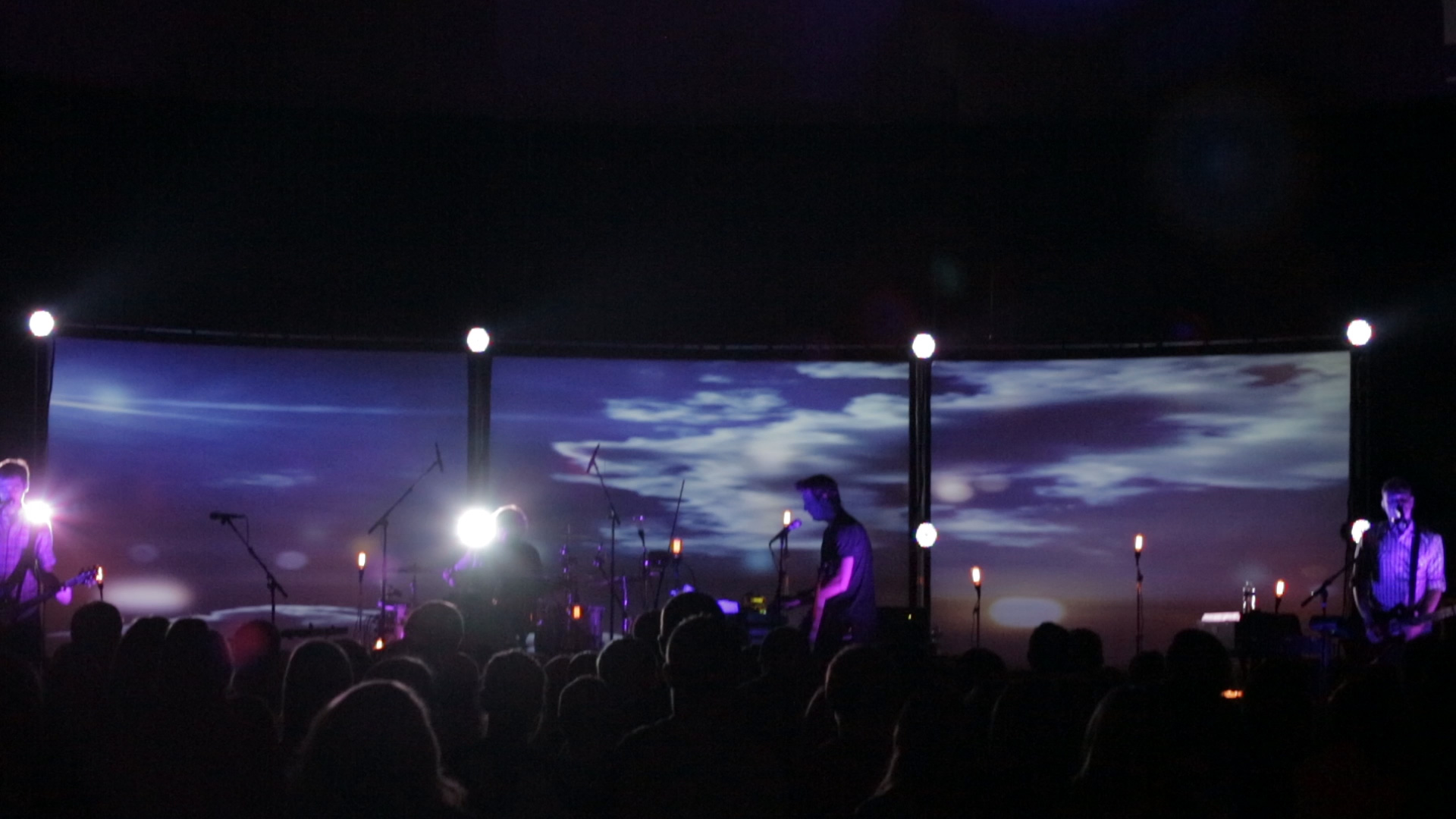 The Digital Age Evening:Morning Tour 10/26/2013